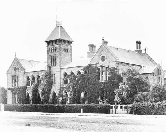 Description: Building of Methodist Ladies' College, Adelaide (now Annesley College), 1903.; Image title:Methodist Ladies College, Park Terrace, Wayville.